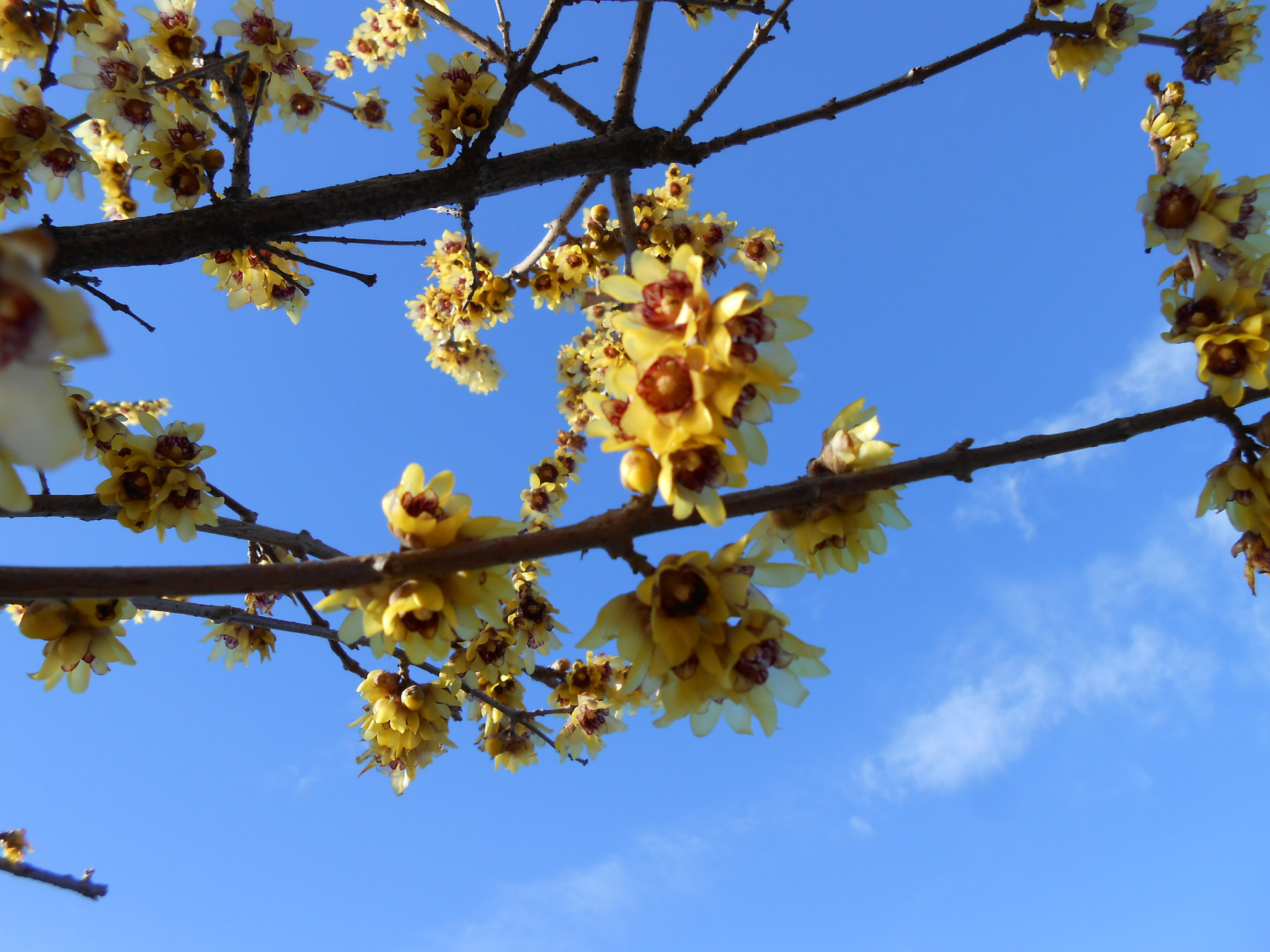 Sprouting branches of Chimonanthus praecox